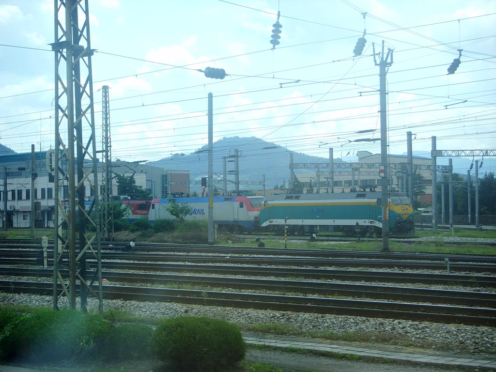 Electric Locomotives of South Korea, EL8000, EL8200, EL8100